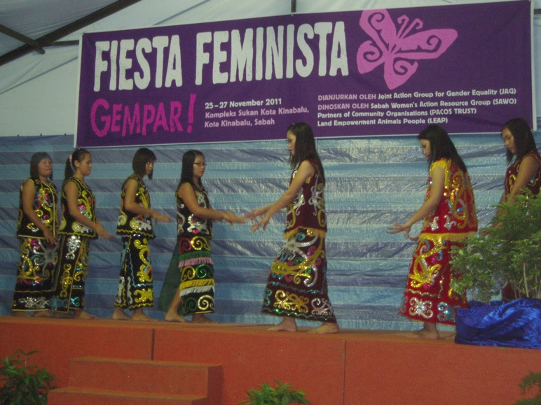 Fiesta Feminista in 2011 was one of Malaysia's biggest feminist events. It brought together feminist-identified individuals and non-governmental organisations to promote women's, LGBT, sex worker's and indigenous rights in the country.